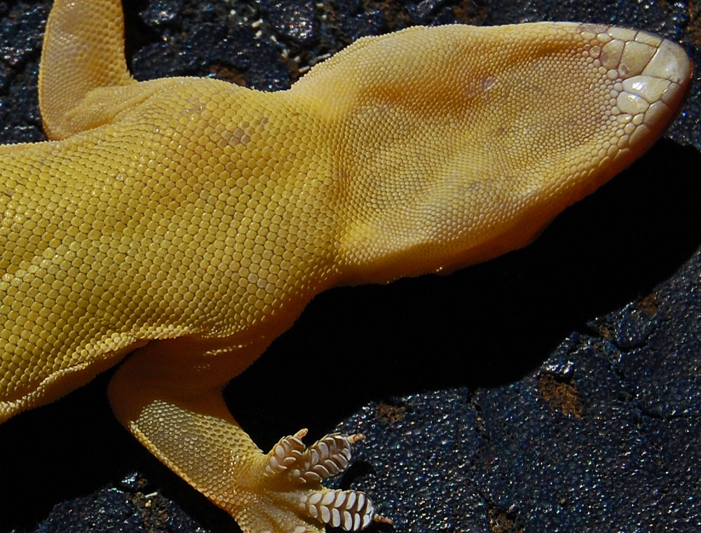 Scales at front part of ventral surface of house-gecko Cosymbotus platyurus. From Darmaga, Bogor, West Java, Indonesia